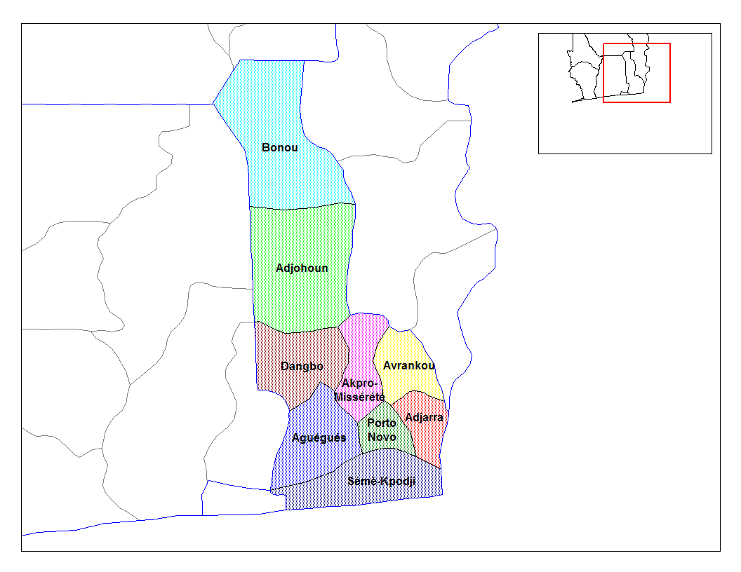 Map of the communes of the department of Ouémé, Benin. Created by Rarelibra for public domain use. Created using MapInfo Professional v7.5 and various mapping resources.